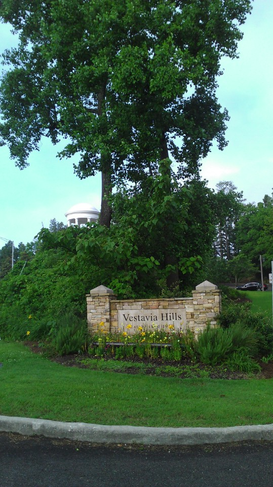 Welcome to Vestavia Hills Alabama with Sybil Temple as enter town from Highway 31 (Montgomery Highway)